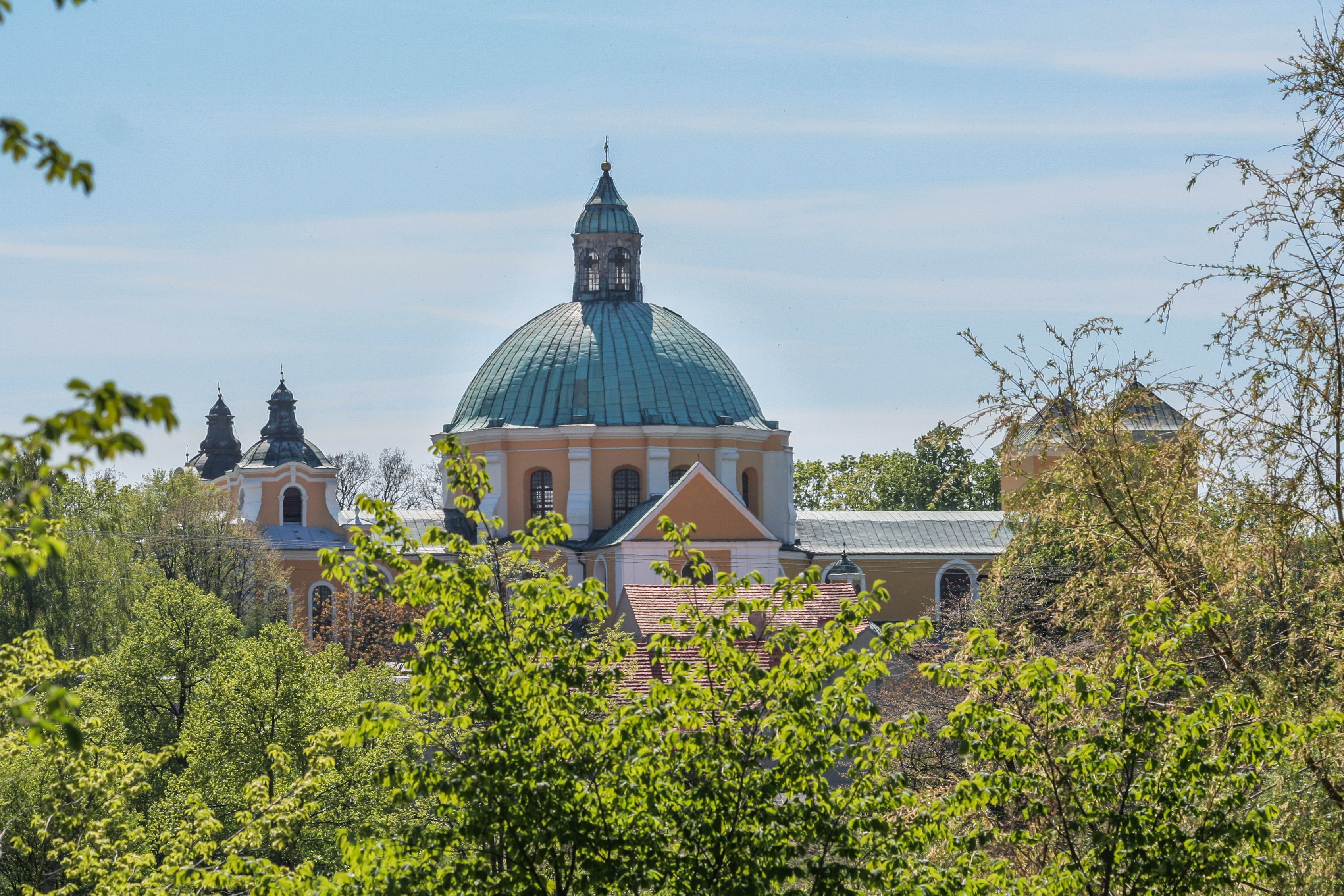 Trzemeszno, Poland, basilica of St. Mary and St. Michael, view from north